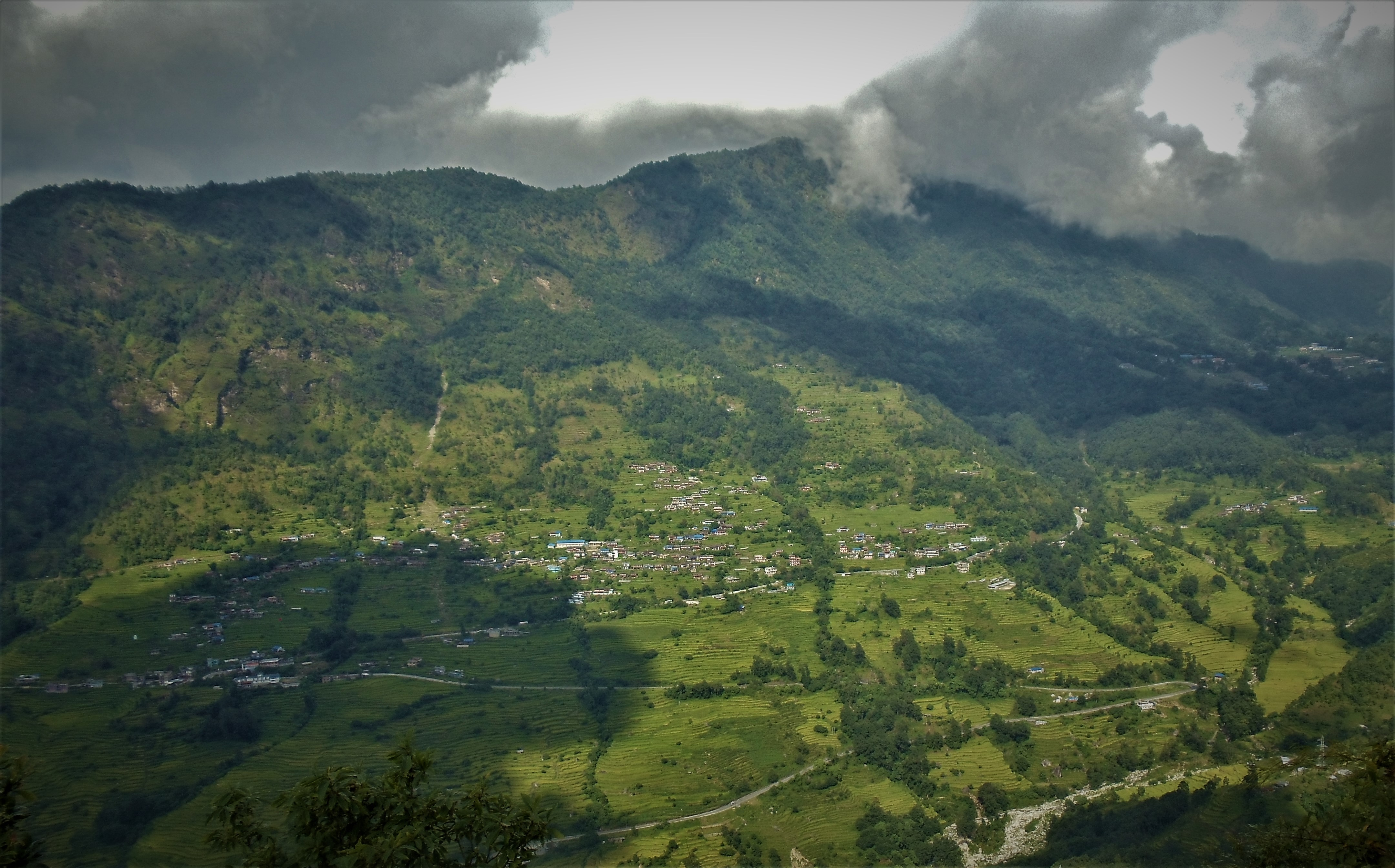 Lumle Village landscape as captured from the front uphills